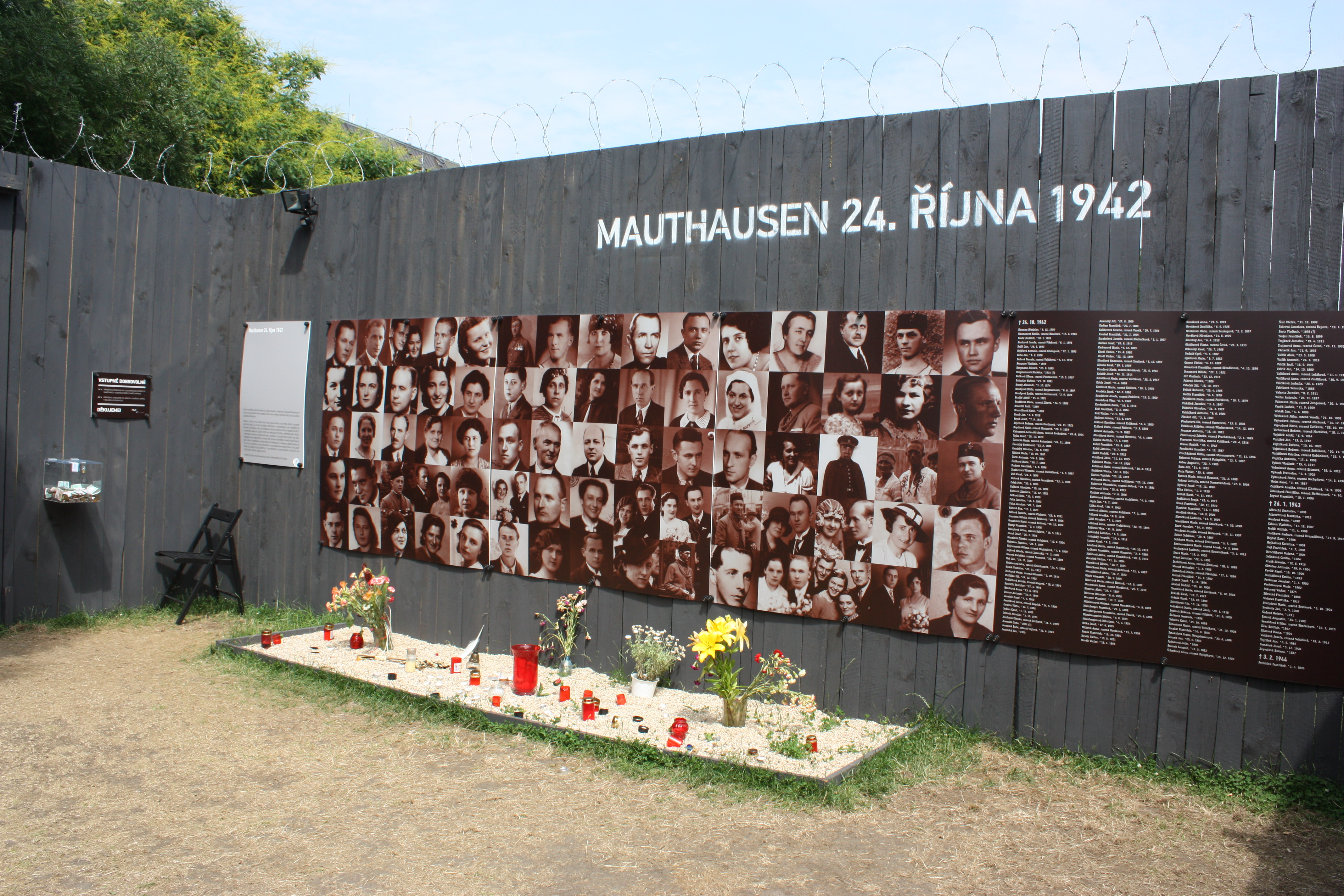 Replica of Concentration camp in Mauthausen at Karlovo náměstí in Prague. It was organized in May – July 2012 by Association Post Bellum in memory of 70th Anniversary of Assassination of Reinhard Heydrich and following repressions by Nazi regime.